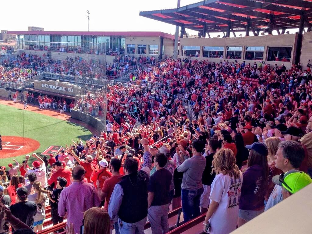 The crowd during a game at Dan Law Field at Rip Griffin Park on the campus of Texas Tech University in Lubbock, Texas